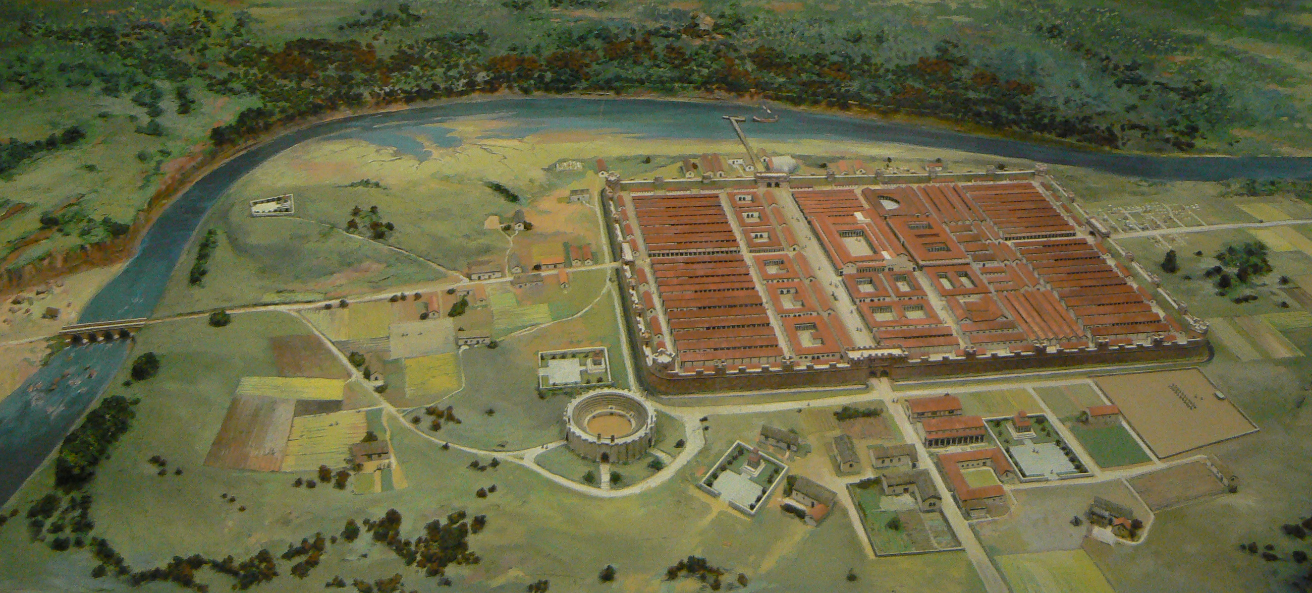 Deva Minerva Plan (reconstruction)